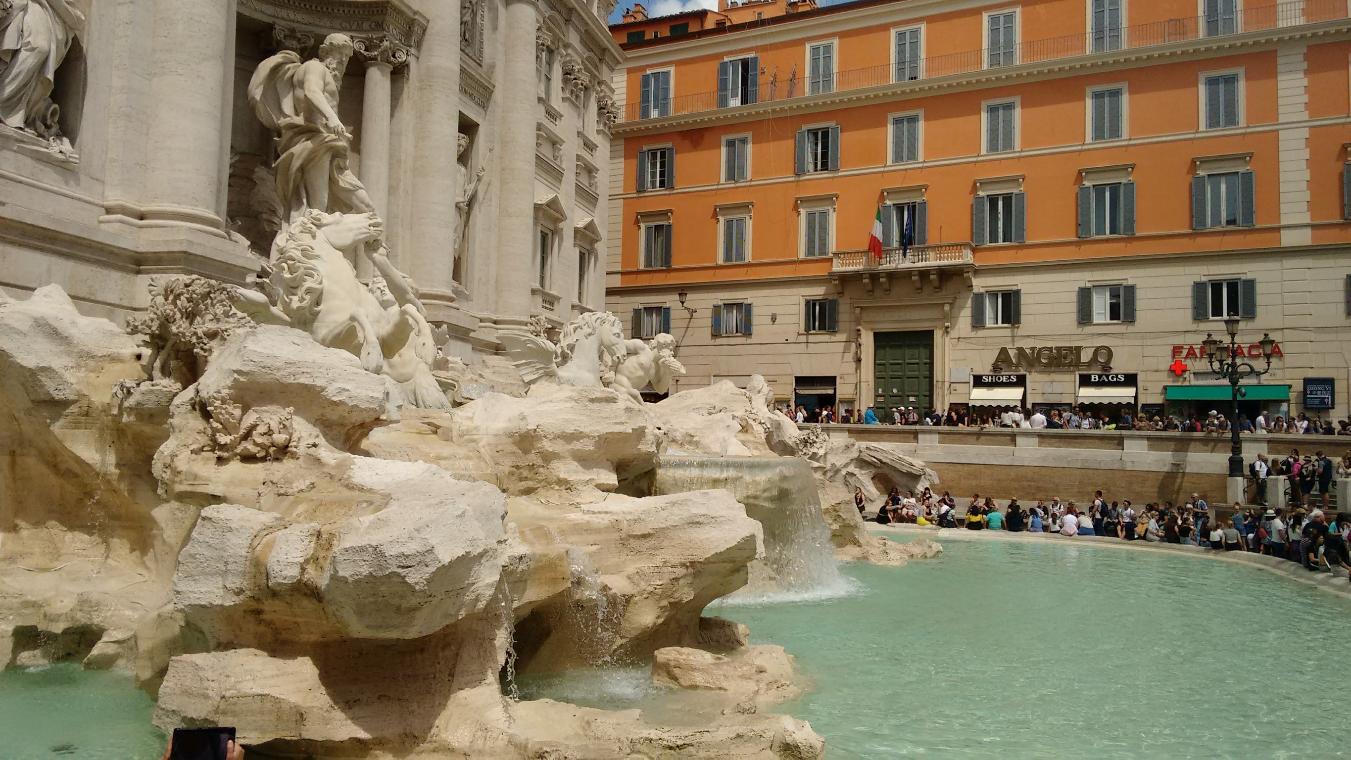 The Trevi Fountain seen from the side.